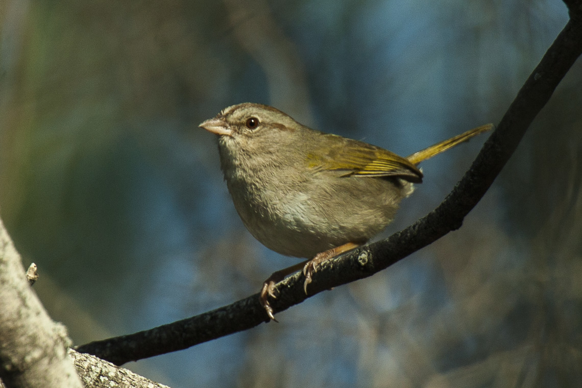 Olive Sparrow - Texas - USA_H8O1341